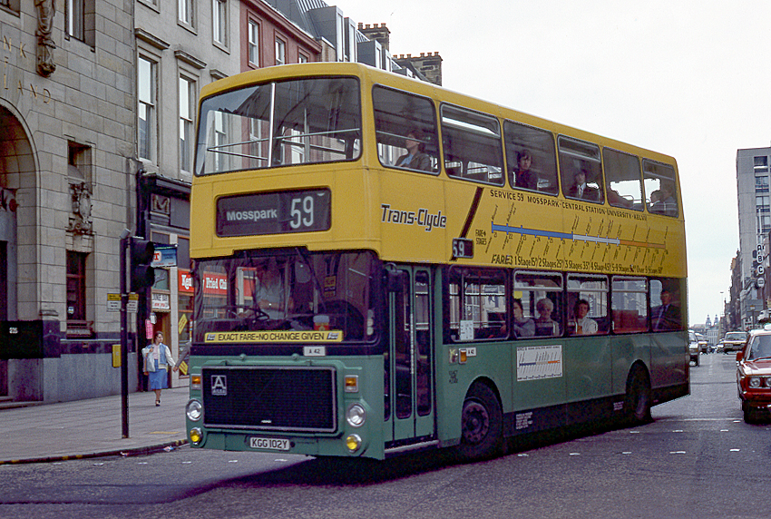 Trans-Clyde liveried Volvo Ailsa KGG 102Y in Sauchiehall St with Service 59 branding. Fleet number A42. Scanned from a Kodachrome 35mm slide.